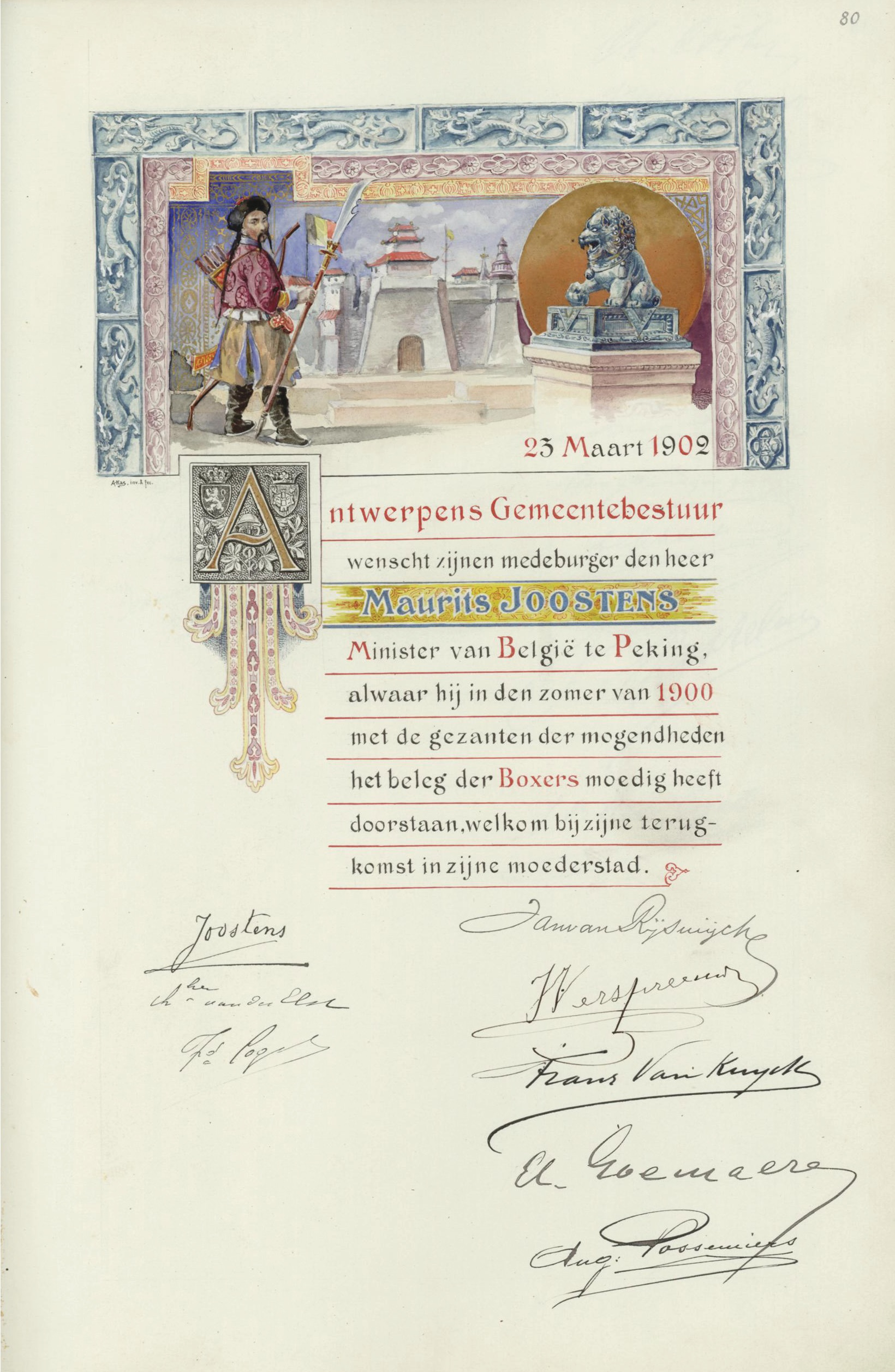 Receipt of the so-called 'Guldenboek' of the Belgian city of Antwerp. This page conmemorates the return of the Belgian diplomat Maurice Joostens to his hometown in 1902 after he survived the Boxer Rebellion and signed the Boxer Protocol.